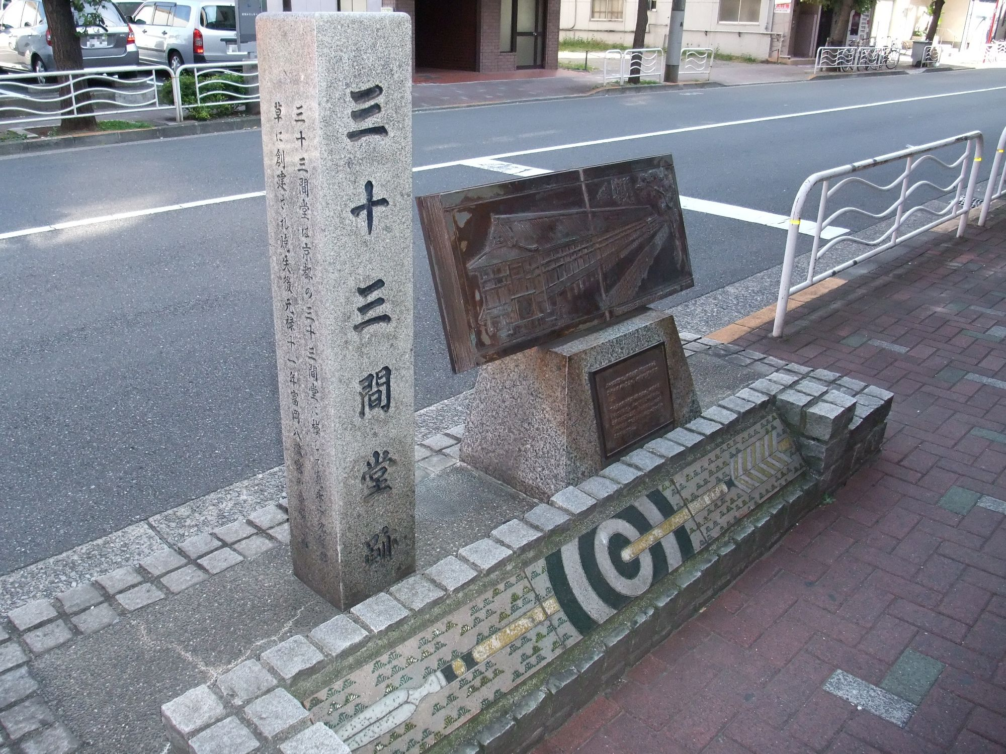 Monument of Fukagawa Sanjūsangendō in Koto-ku, Tokyo